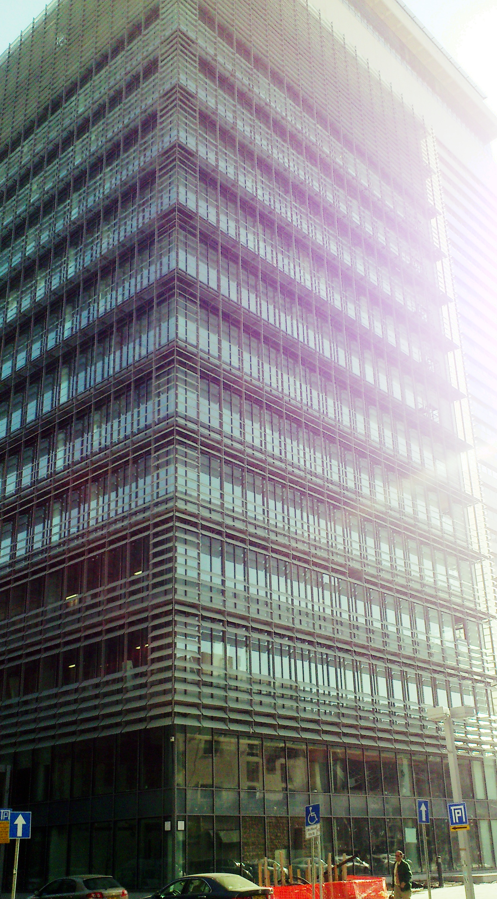 the new Tel Aviv Stock Exchange Building